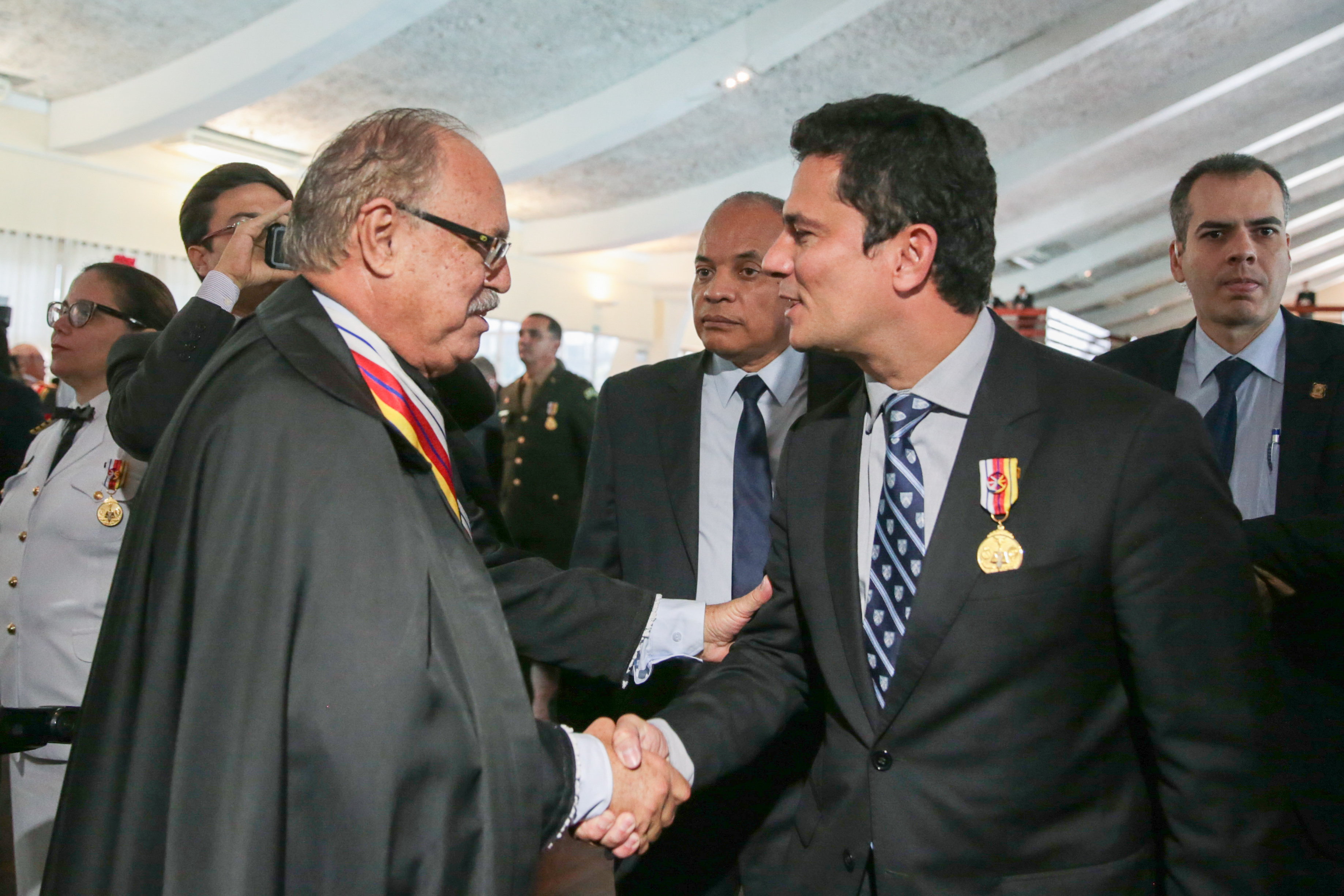 Sérgio Moro receives a medal of honor.